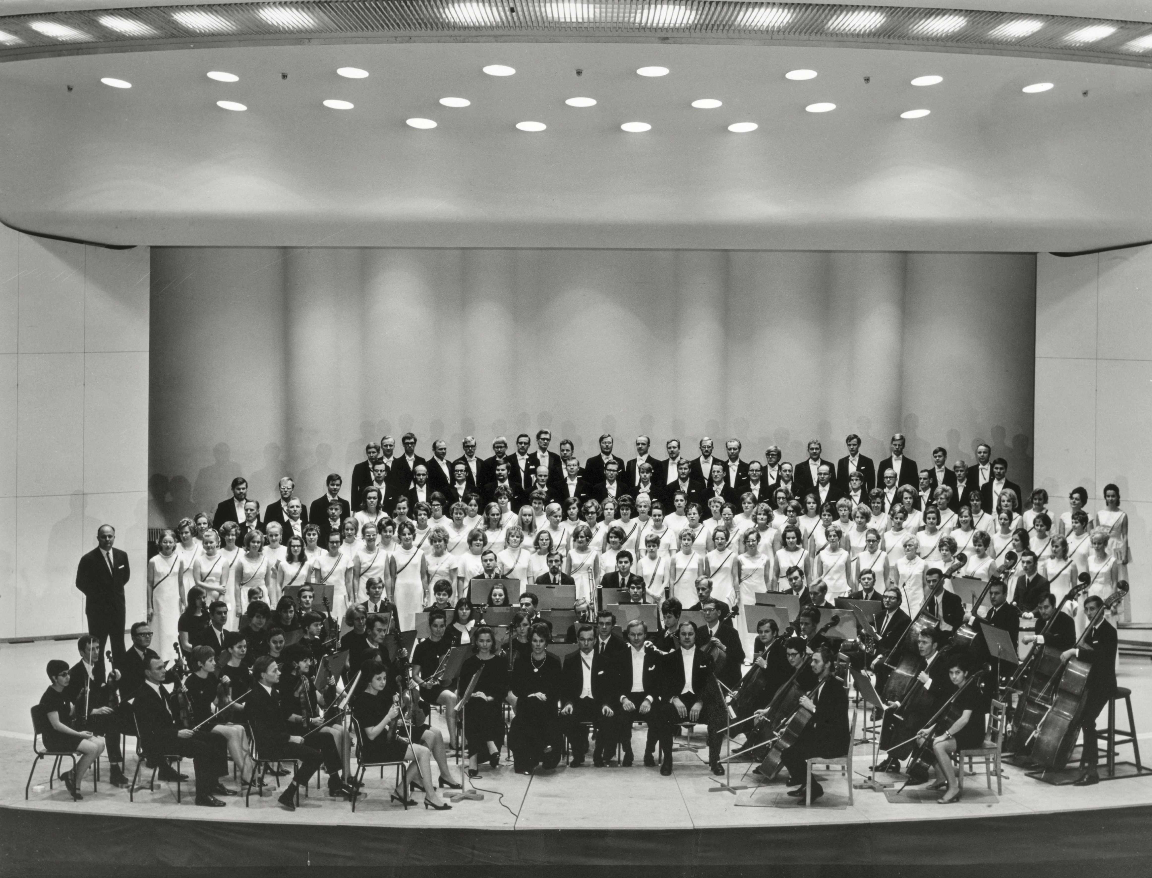 Photograph of the Budapest University Symphony Orchestra and Akateeminen Laulu choir (The Academic Choral Society) of Helsinki University Student Union in Helsinki Culture Hall, with conductor Reijo Norio. They gave a performance of W. A. Mozart’s Mass in C minor.